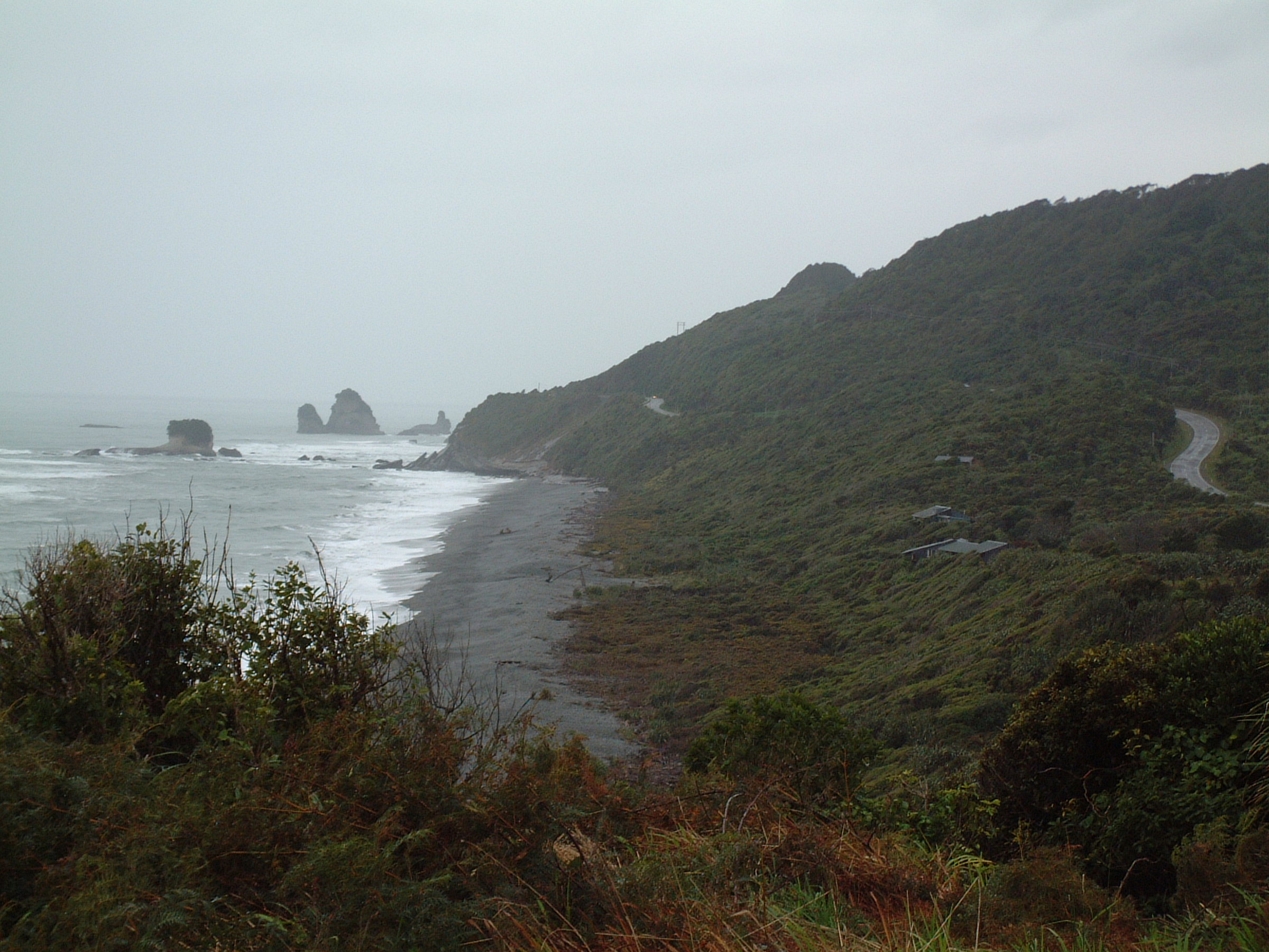 Cape Foulwind beach and foot path